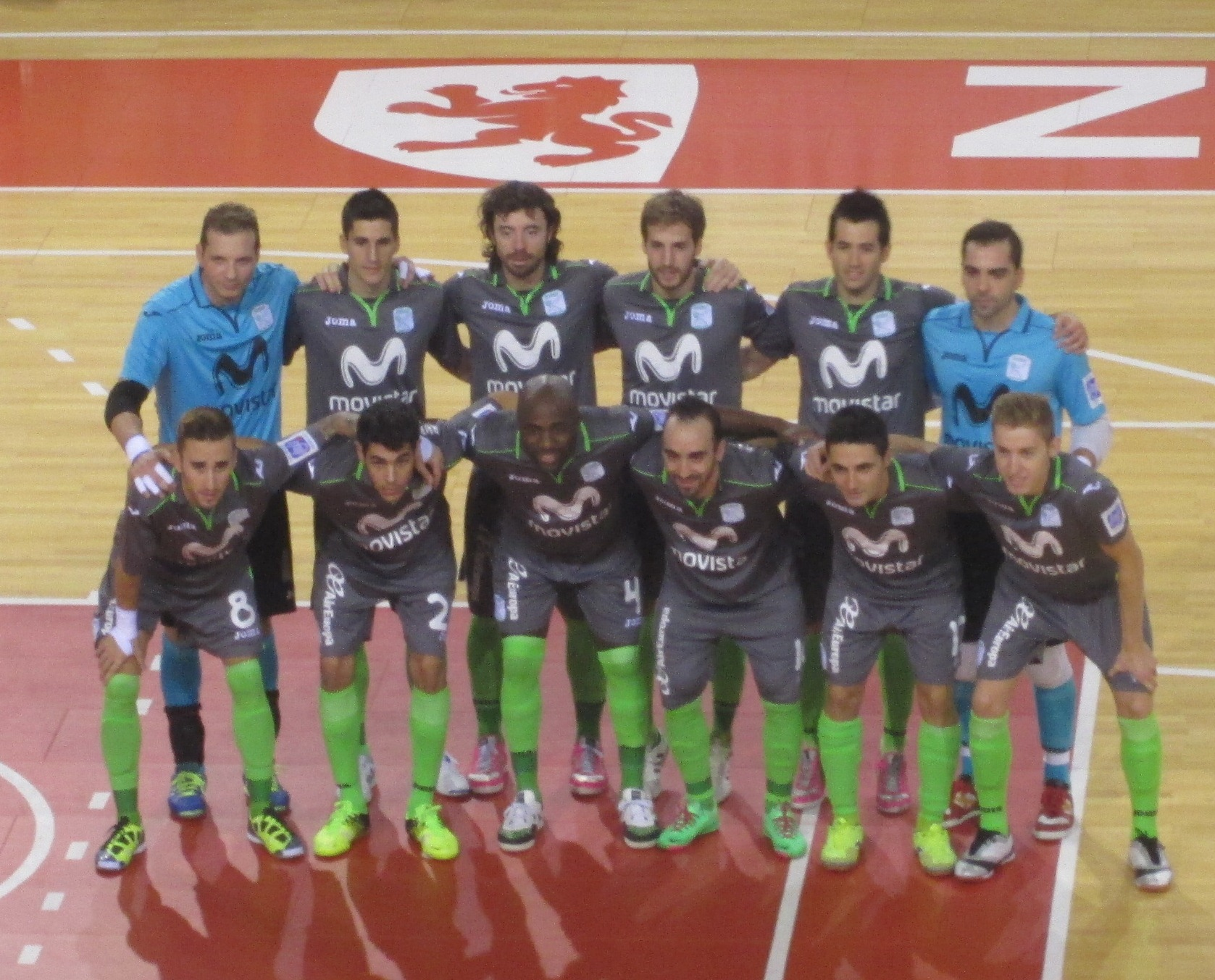 iNTER Movistar de futbol sala